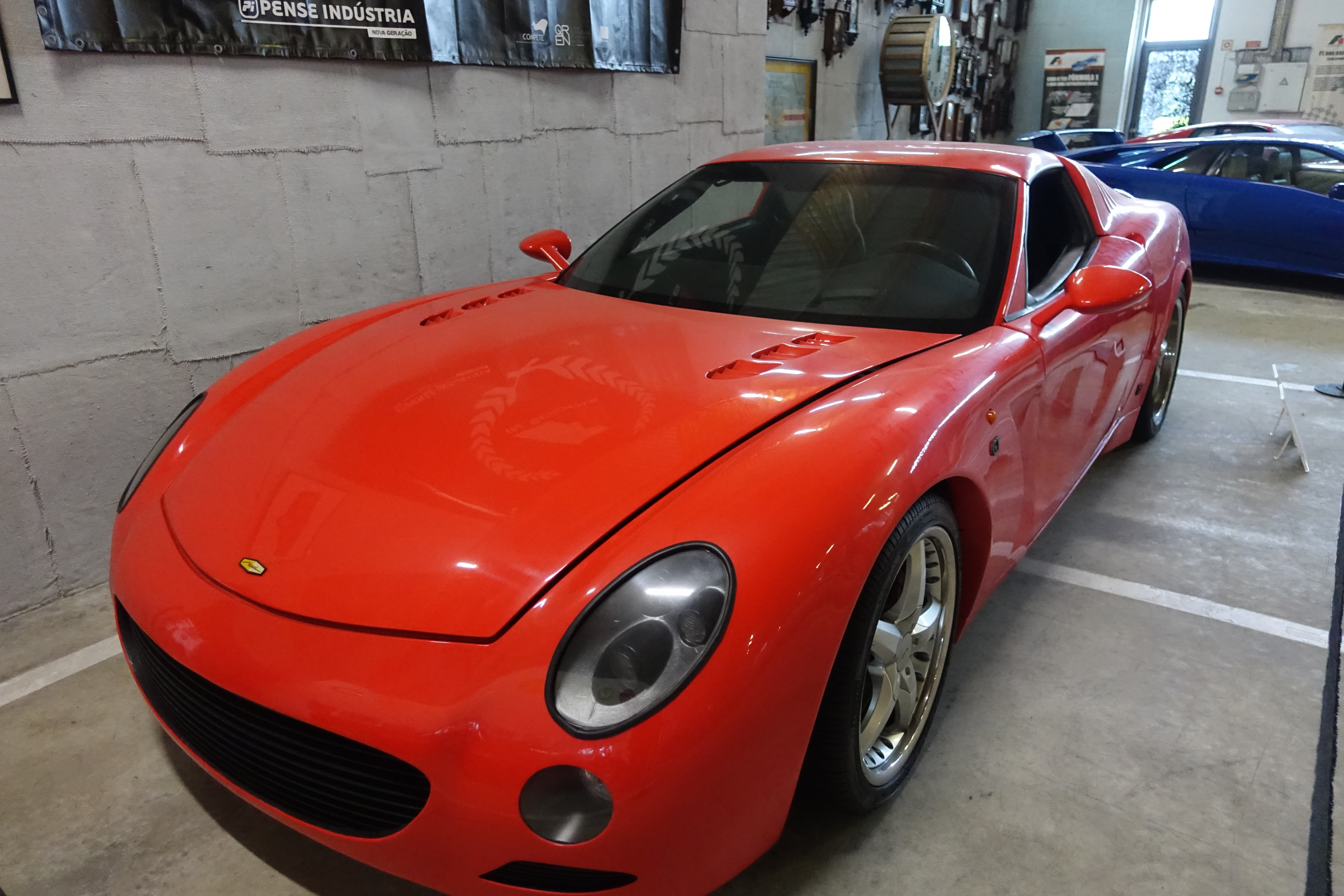 Museu do Automóvel de Famalicão, Portugal.